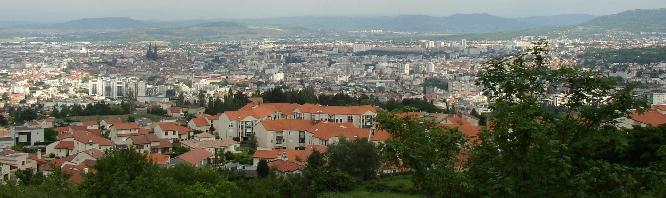 Panoramic view of the city 'Clermont-Ferrand' (photo by me)